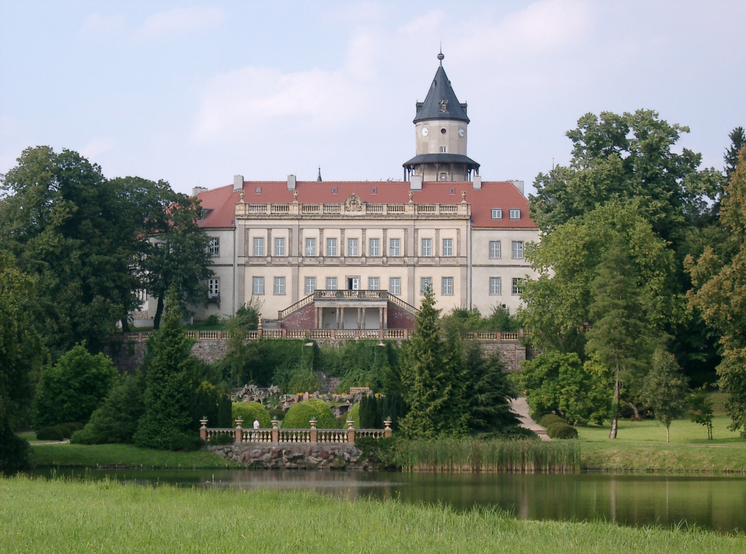 Palace Wiesenburg, view from garden.